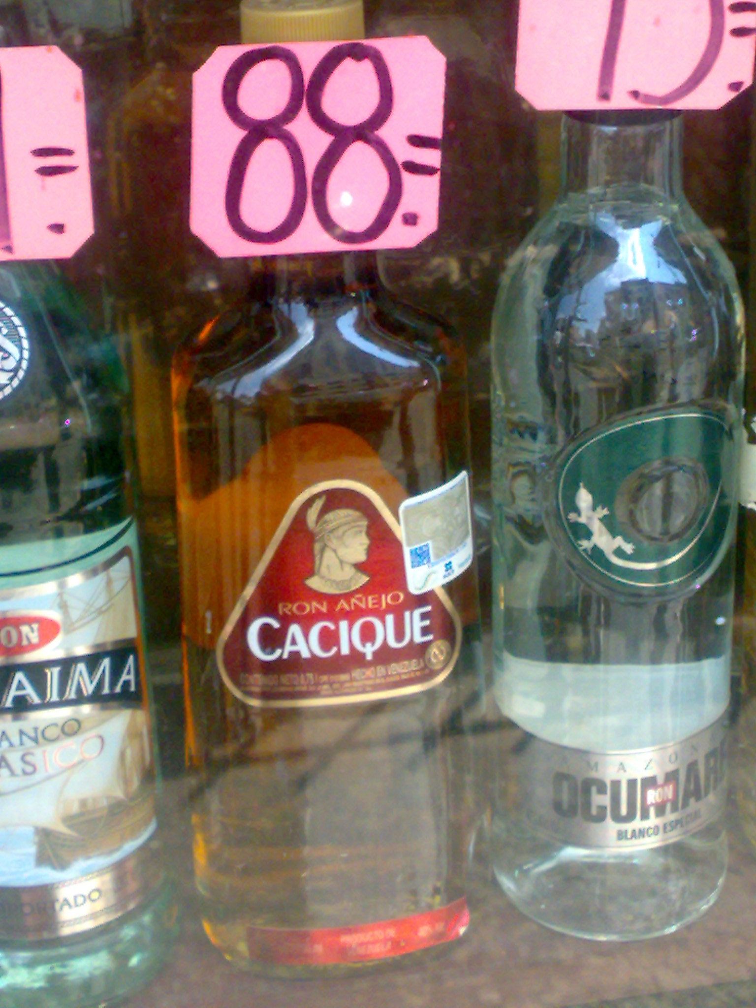 A botle of Cacique rum